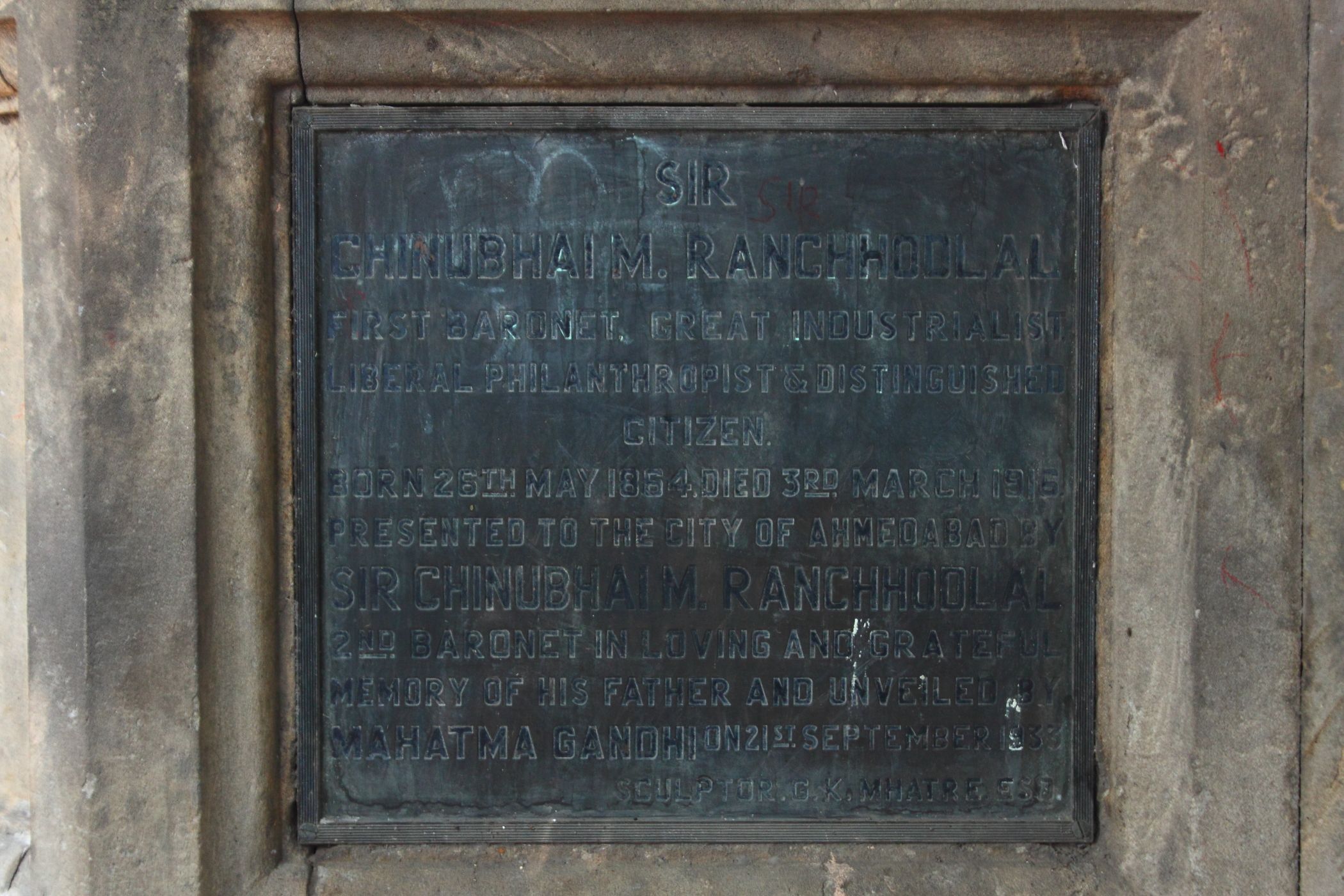 The information stone under the Chinubhai Ranchodlal stone idol.